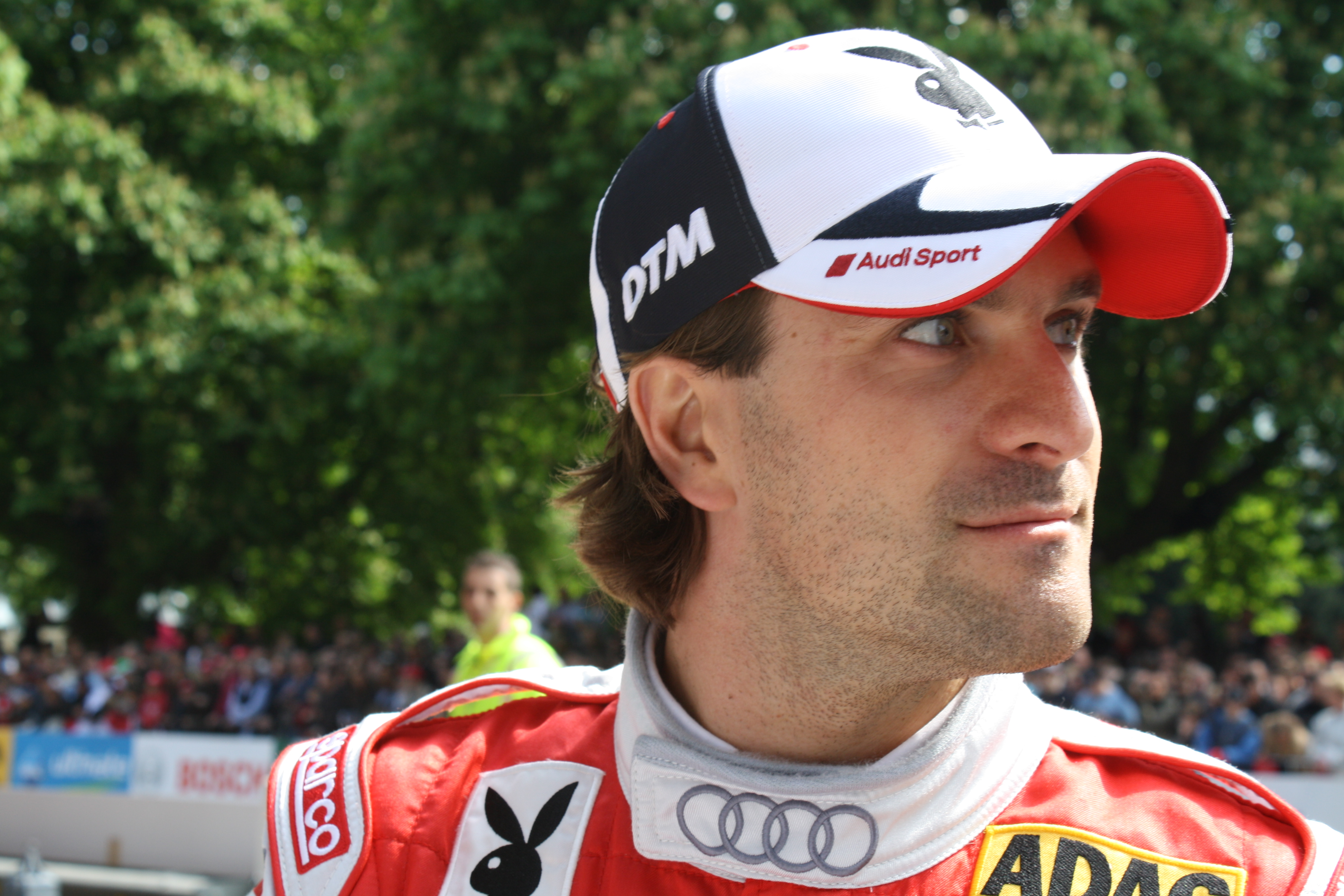 Markus Winkelhock (DTM presentation in Düsseldorf (Germany))